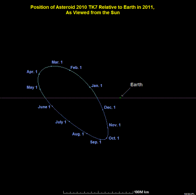 The motion of 2010 TK7 in 2011 relative to the Earth, as viewed from the Sun. The horizontal line is the Earth's orbit edge-on.